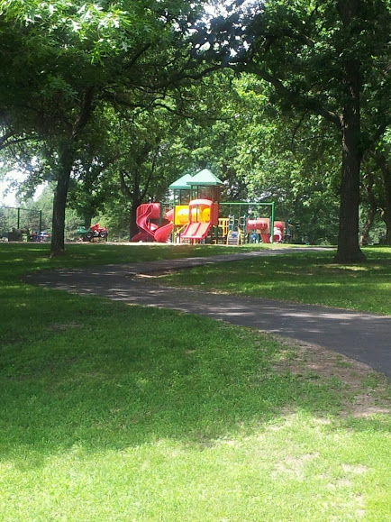 Beautiful Shamrock Park in Shoreview, MN